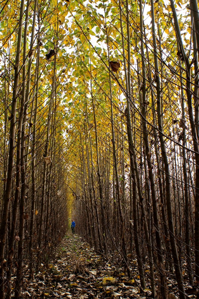 4 years old short rotation poplar plantation in Germany